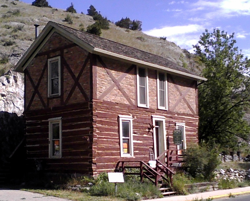 Kluge House, Building on National Register of Historic Places, Helena, Montana